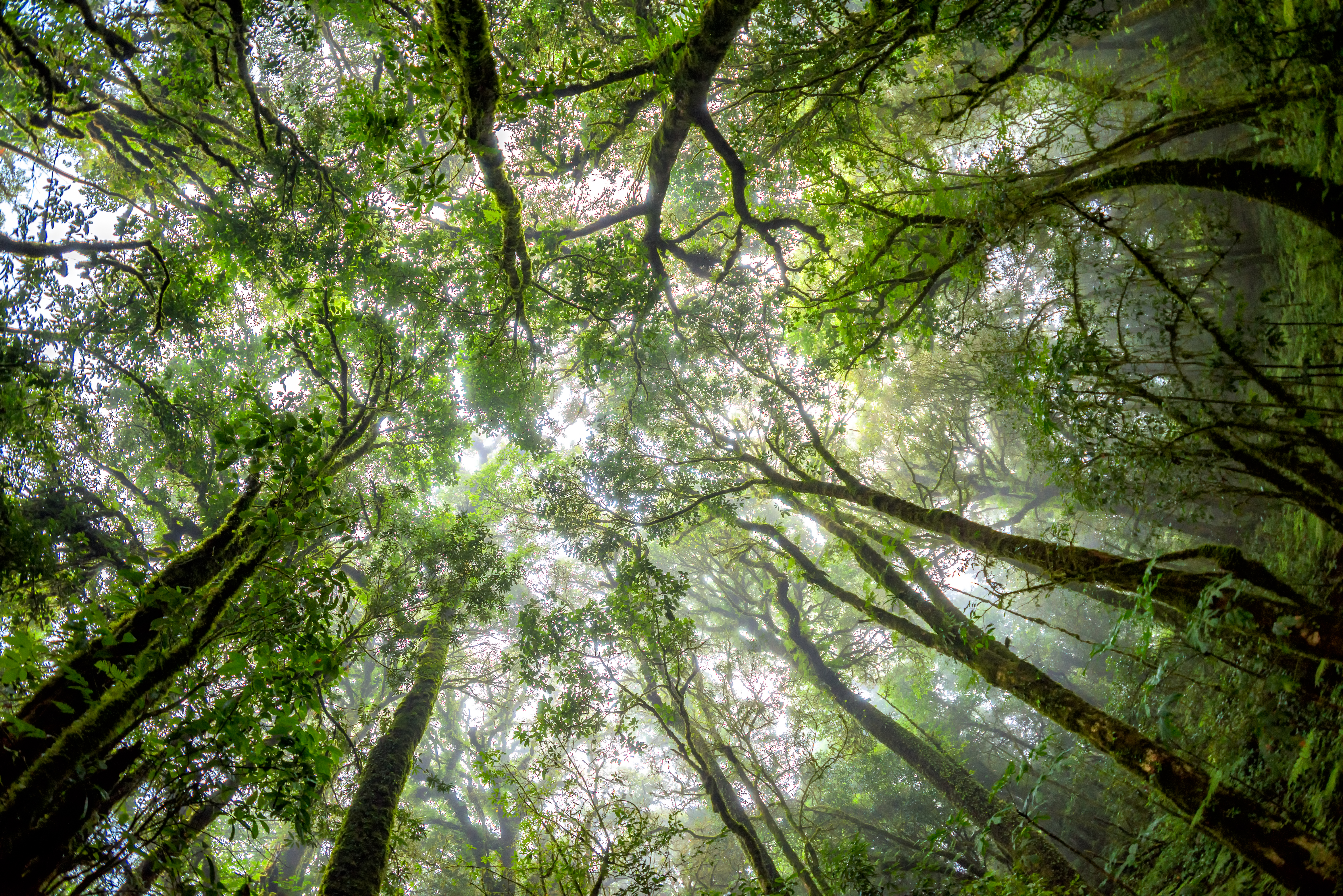 Doi Inthanon National Park, Chiang Mai